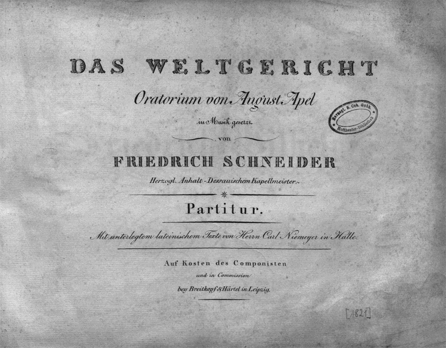 Title page of the first print of the score to the oratorio "The Last Judgement" (Das Weltgericht)